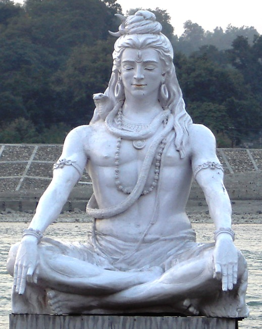 Shiva meditating on the banks of River Ganga in Rishikesh.